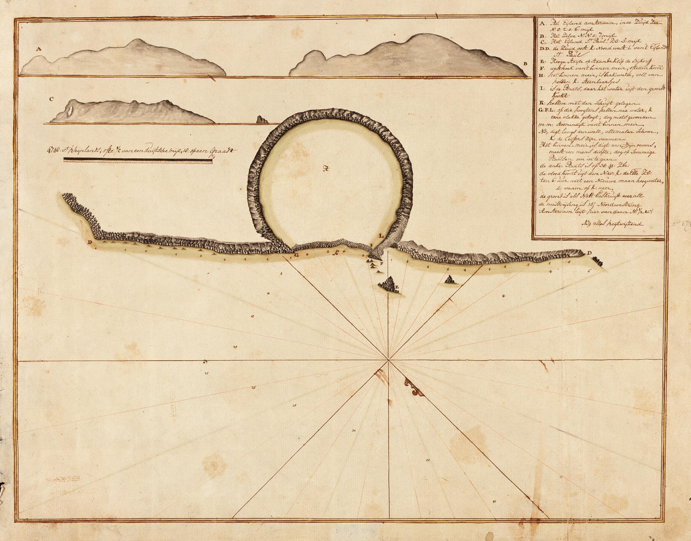 Title in the Leupe catalogue (National Archives): Kaartje van de Eilanden St. Paulus en Amsterdam, benevens de Zuyd-Oost en Noord-Westhoek van het eiland St. Paulus enz.. According to the notes in the Leupe catalogue, the map was made by Godlob Silo, captain on the East India Company's vessel the Drie Heuvelen, 1754. Numbered top right: 4. Key: A-L